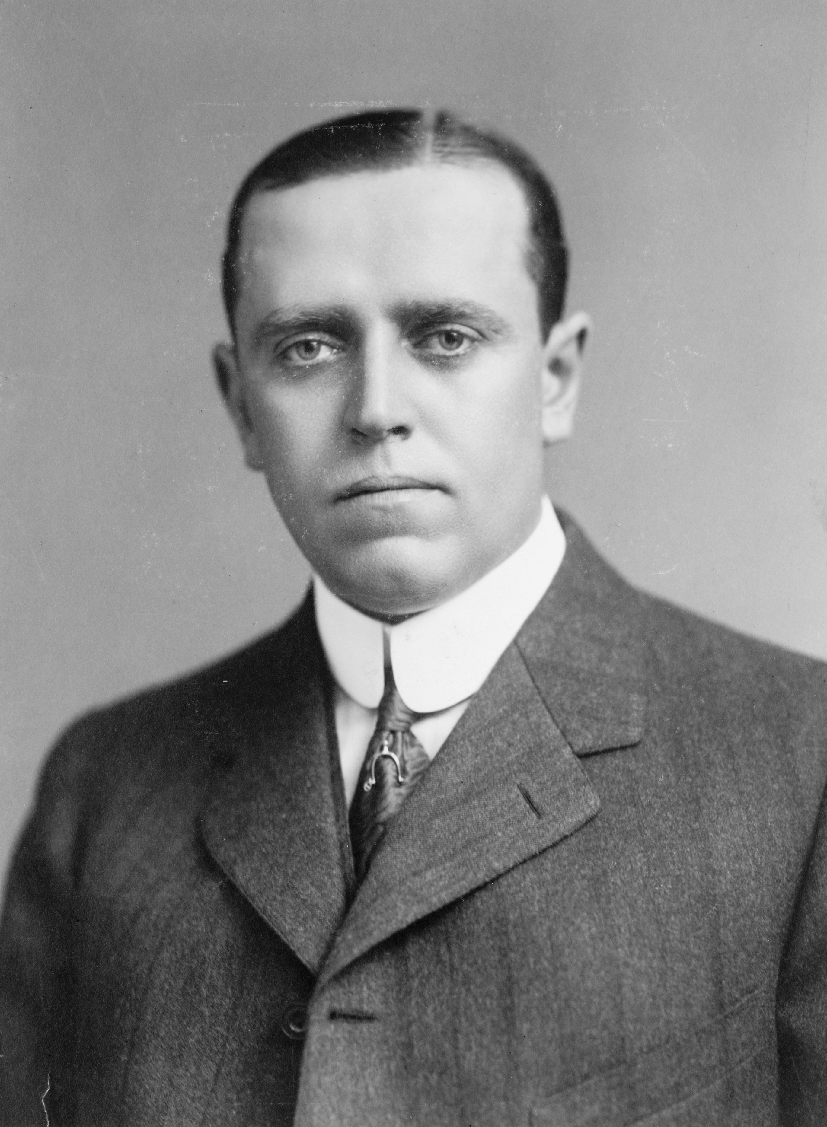 Title: Rhinelander Waldo, head-and-shoulders portrait, facing slightly left Abstract/medium: 1 photographic print.